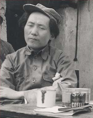 Mao Zedong in Yan'an.